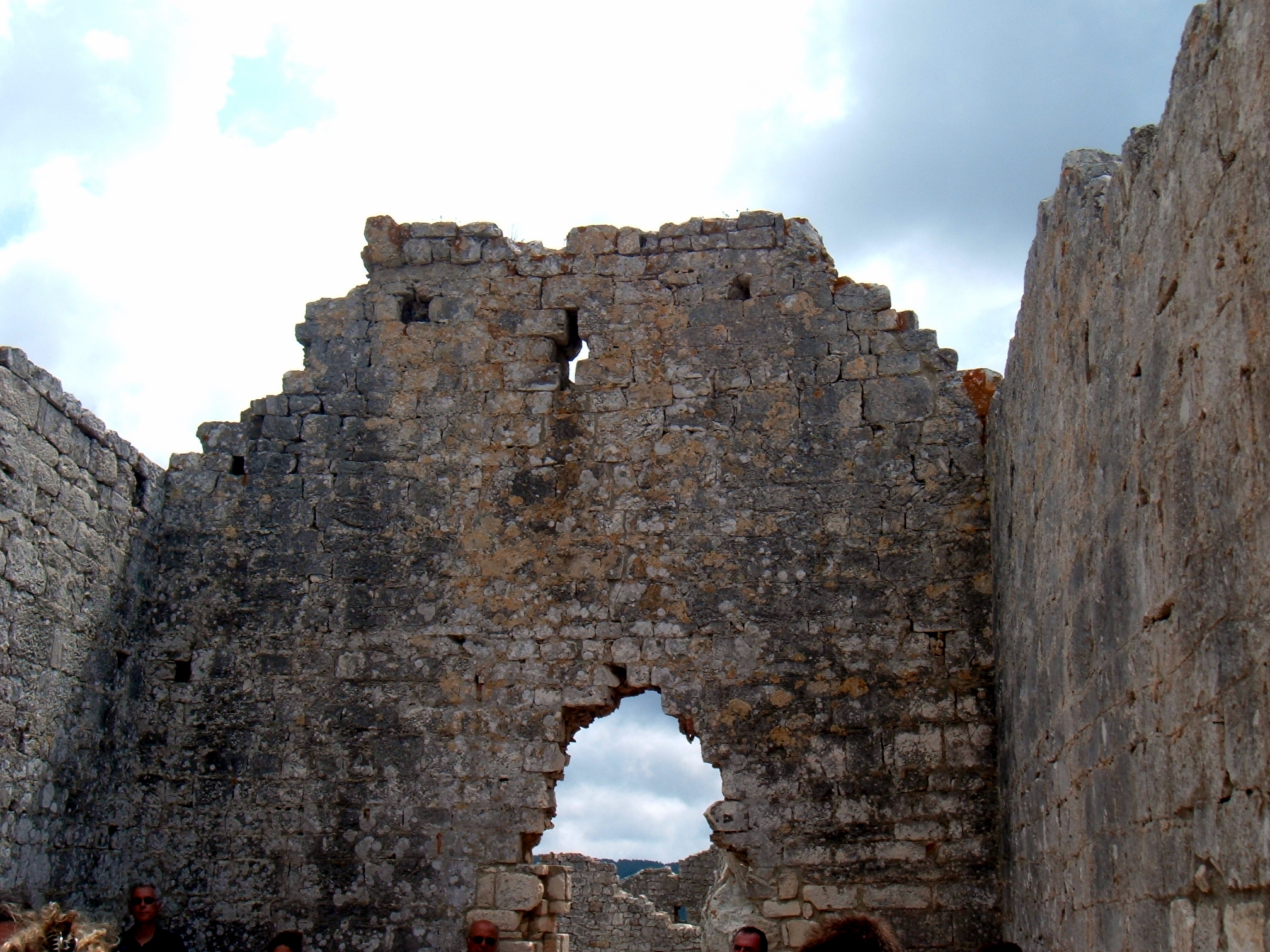 Rocca San Silvestro, a medieval rocca located in Campiglia Marittima, Tuscany, Italy. Old church (vecchia chiesa)